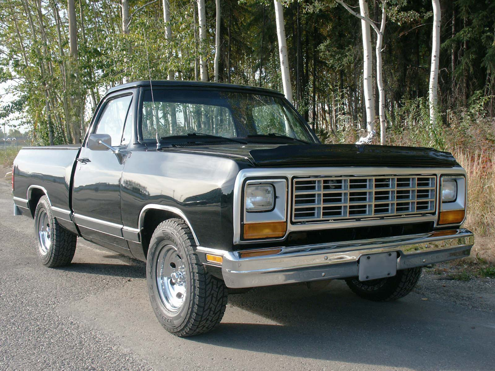 1983 Dodge D150 w/ a slant 6